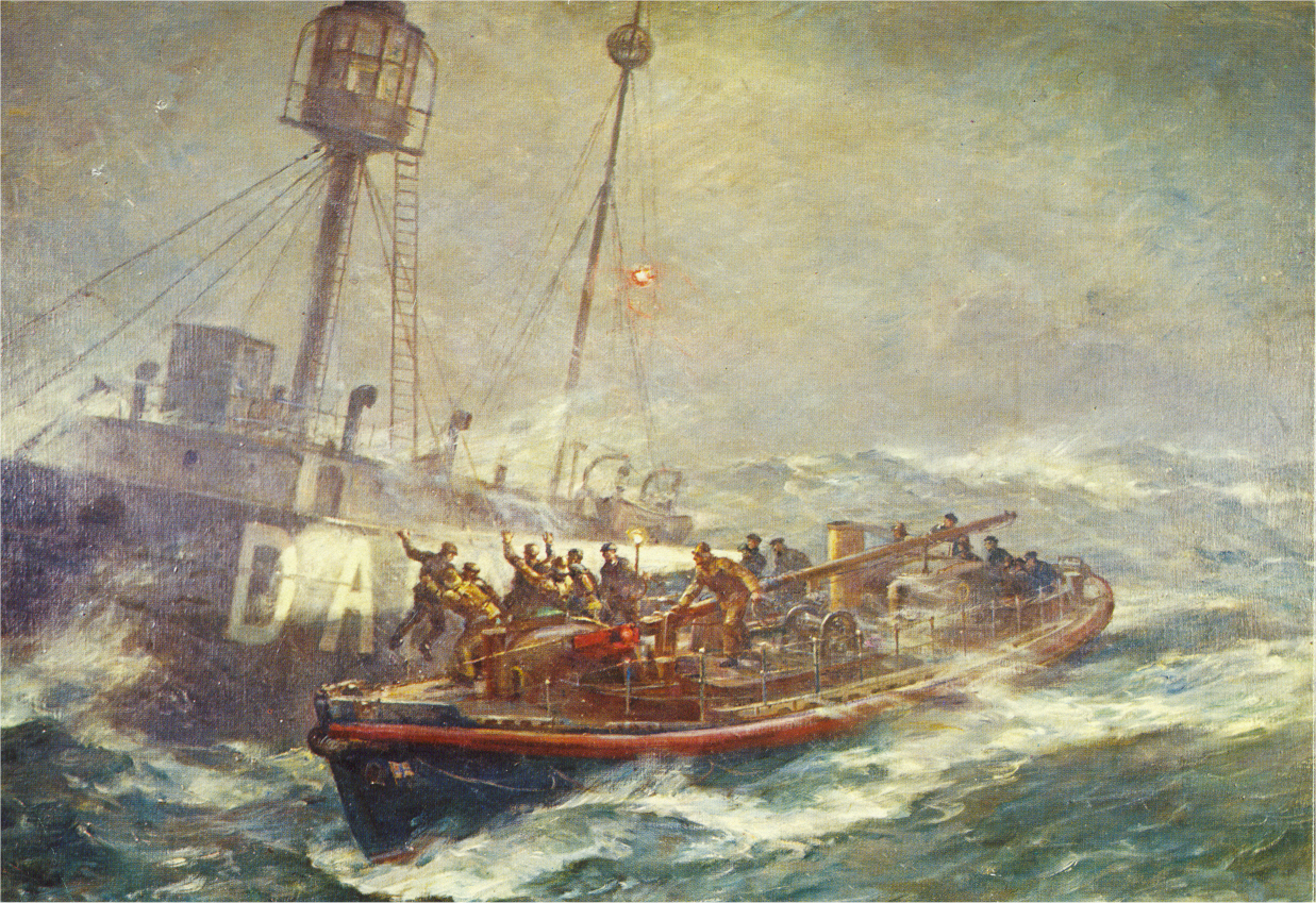 A postage stamp was issued in 1974 to mark the 150th anniversary of the RNLI. This depiction of the rescue of the crew of the Daunt Lightship by the Ballycotton lifeboat Mary Stanford was chosen as the image to be represented on that postage stamp